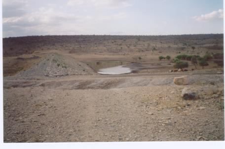 Aqushela dam in 2002